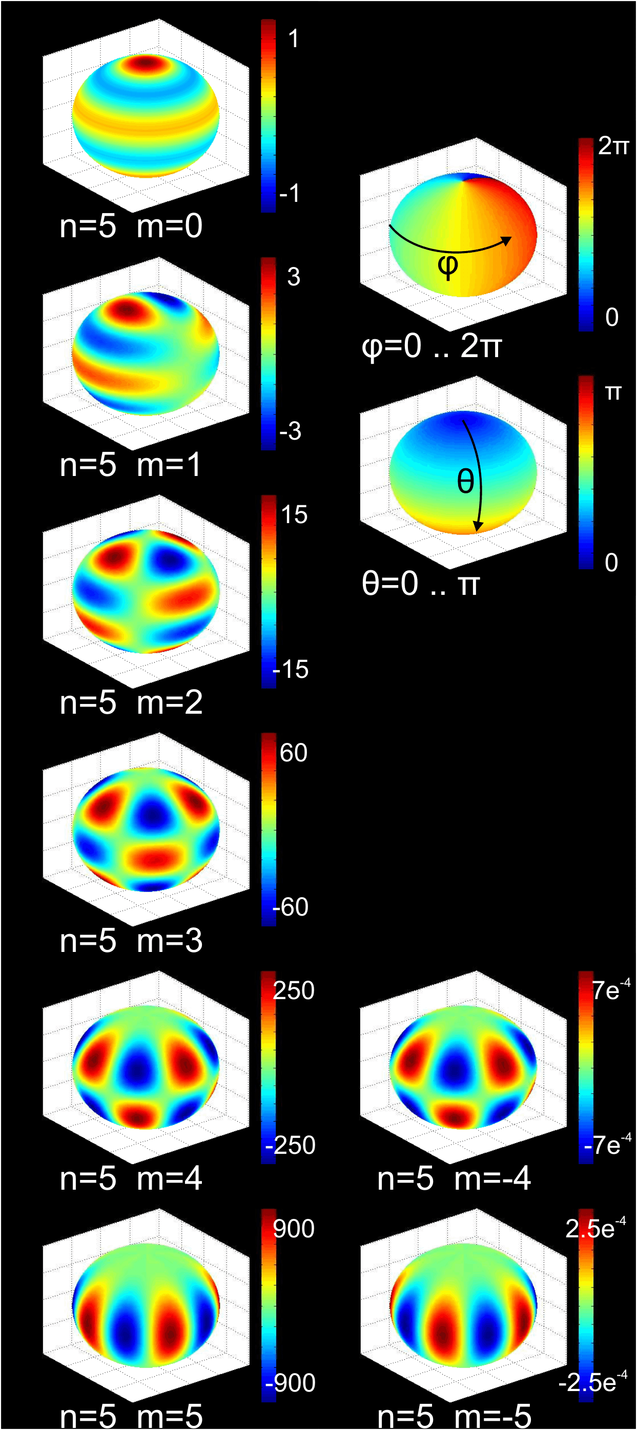 Spherical harmonics in 3D. Plot of the absolute value of the spherical P n m ( cos ⁡ θ ) exp ⁡ ( i m ϕ ) {\displaystyle P_{n}^{m}(\cos \theta )\exp(im\phi )} harmonic of degree n=5, and orders m=5,4,3,2,1,0,-4,-5 When the spherical harmonic order m is zero, the spherical harmonic functions do not depend upon longitude, and are referred to as zonal. When n = | m | {\displaystyle n=|m|} , there are no zero crossings in latitude, and the functions are referred to as sectoral. For the other cases, the functions checker the sphere, and they are referred to as tesseral. Spherical harmonics of negative order have the same appearance, but much smaller amplitude and sign (-1)^m Plotted with Matlab.